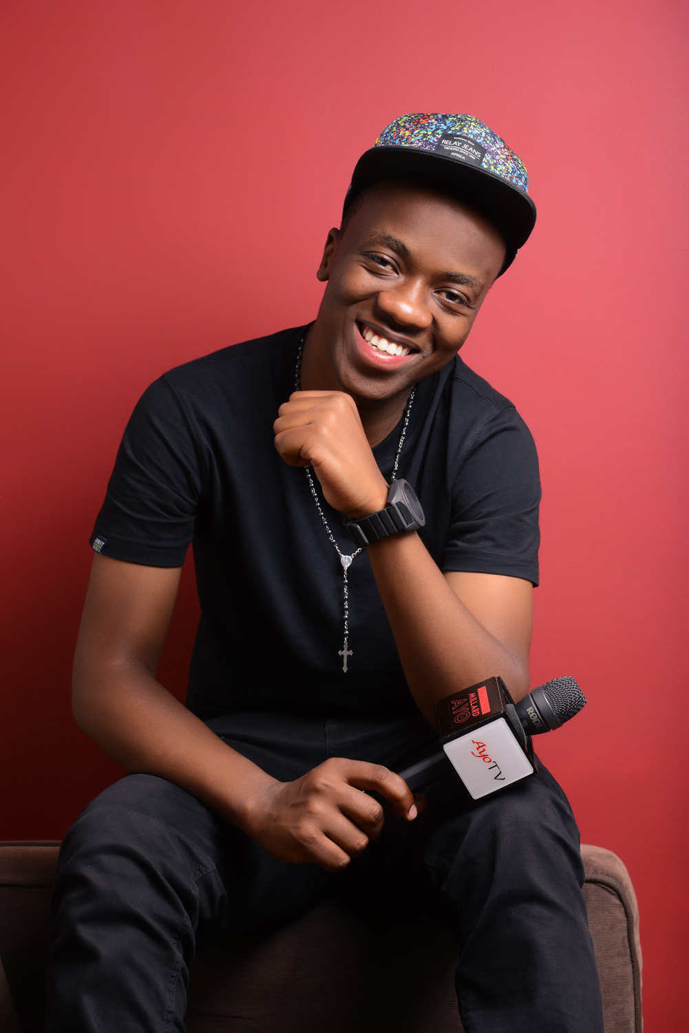 Millard during the opening of TZA.